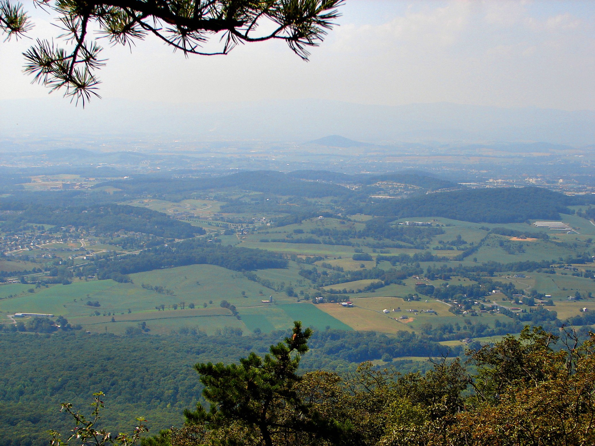 View of Rockingham County from Massanutten Mountain (looking west), Virginia, United States